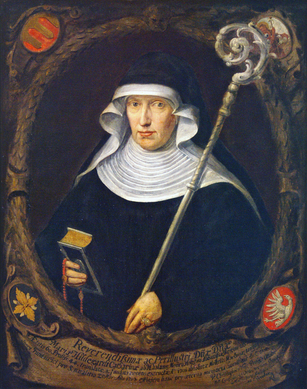 Maria Hildegard Catharina von Haslang, abbess of Holzen Abbey from 1677 to 1721